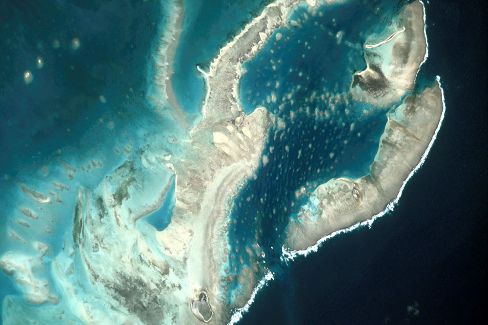 NASA atronaut image of the central part of Cargados Carajos Shoals (Mauritius) in the Indian Ocean